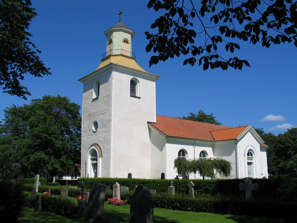 Södra Möckleby Church. In 1850-1851, Peter Isberg built the new church in Södra Möckleby after drawings by Johan Fredrik Åbom. The medieval church tower was preserved and provided with a lantern. On September 28, 1851, the church was opened.